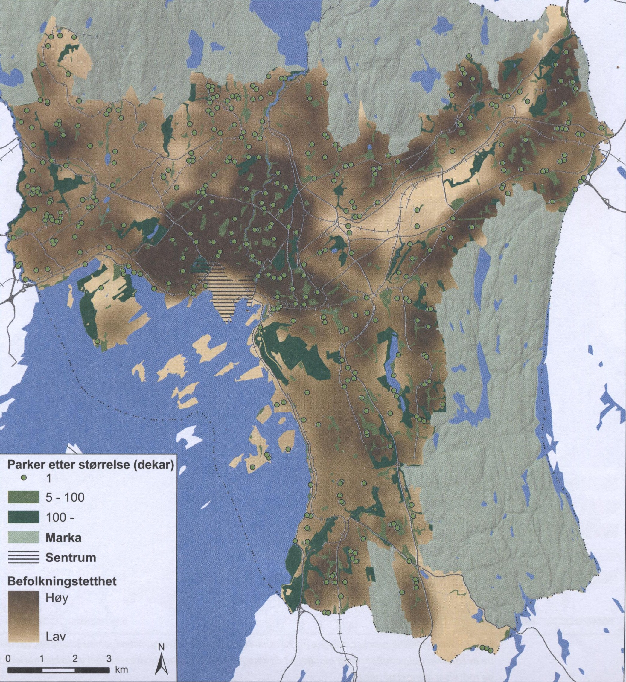 Population density map for Oslo. Draft for greenery plan for Oslo, City og Oslo, page 38.